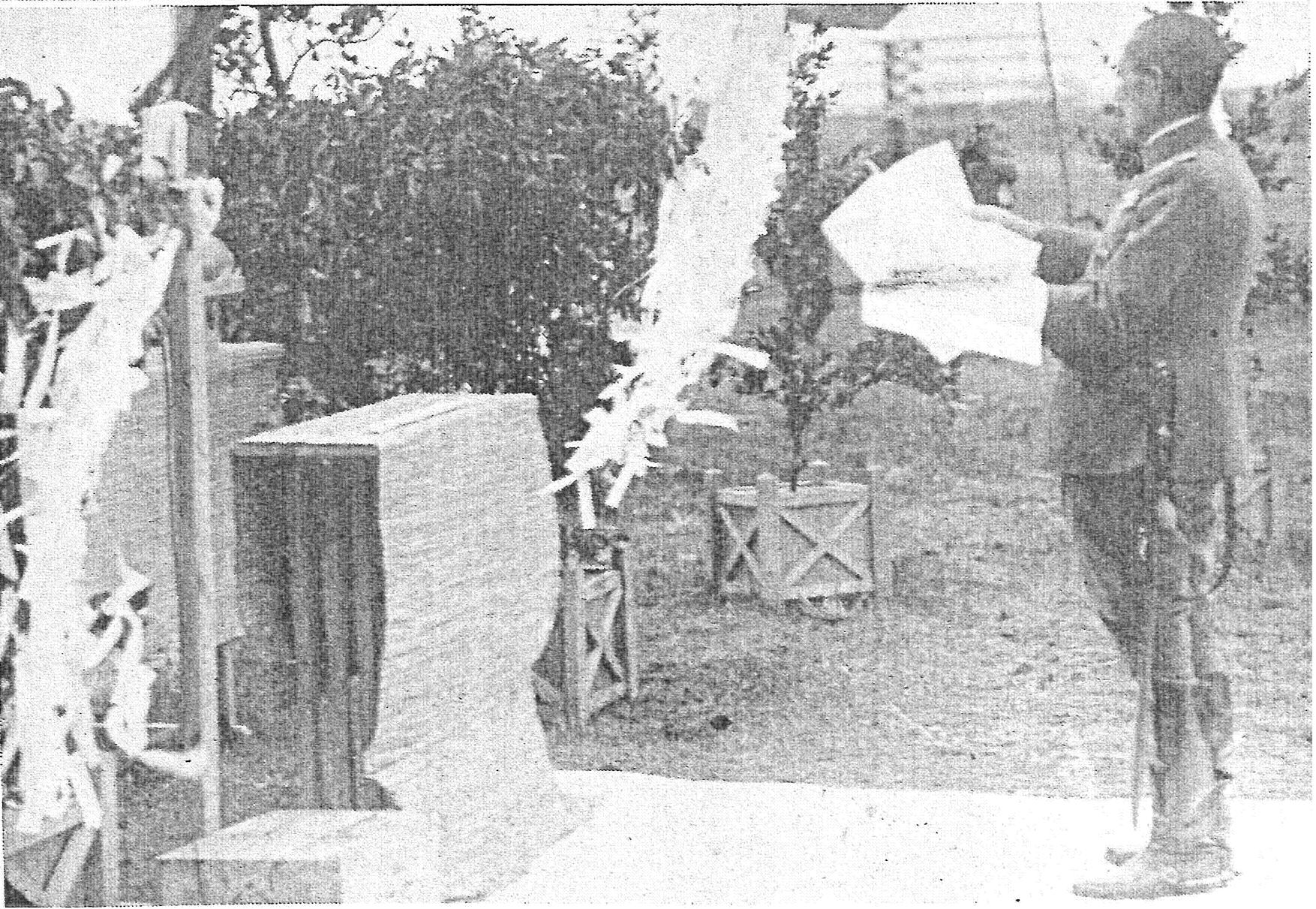 The message of condolence of the Commander Matsui in memorial service for the brave soldiers killed in the war at an airport close to the Ming Dynasty palace, inside the Zhongshan Gate（December 18, 1937）